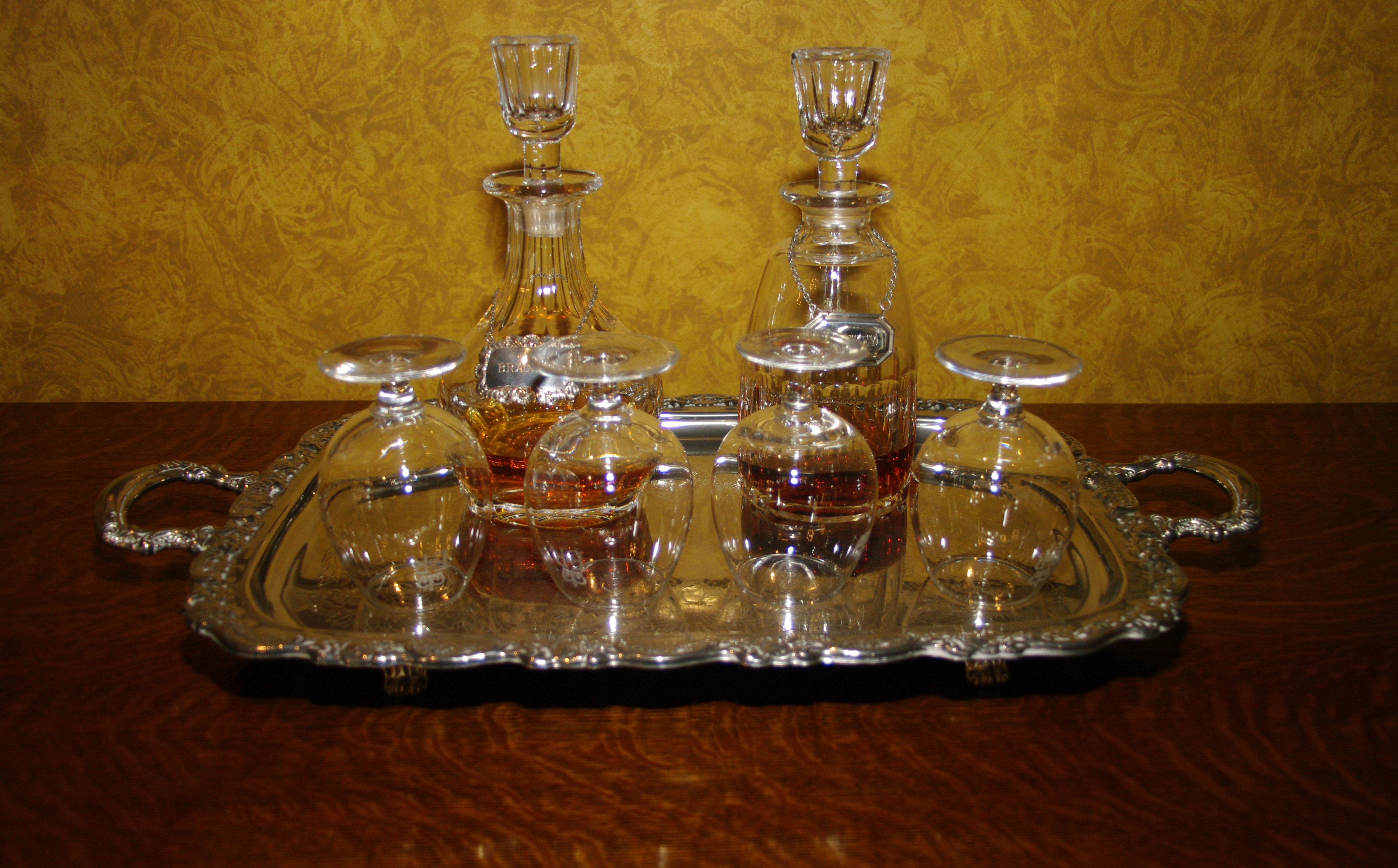 Photographs taken during Heritage Day Perth Western Australia brandy and scotch decanter